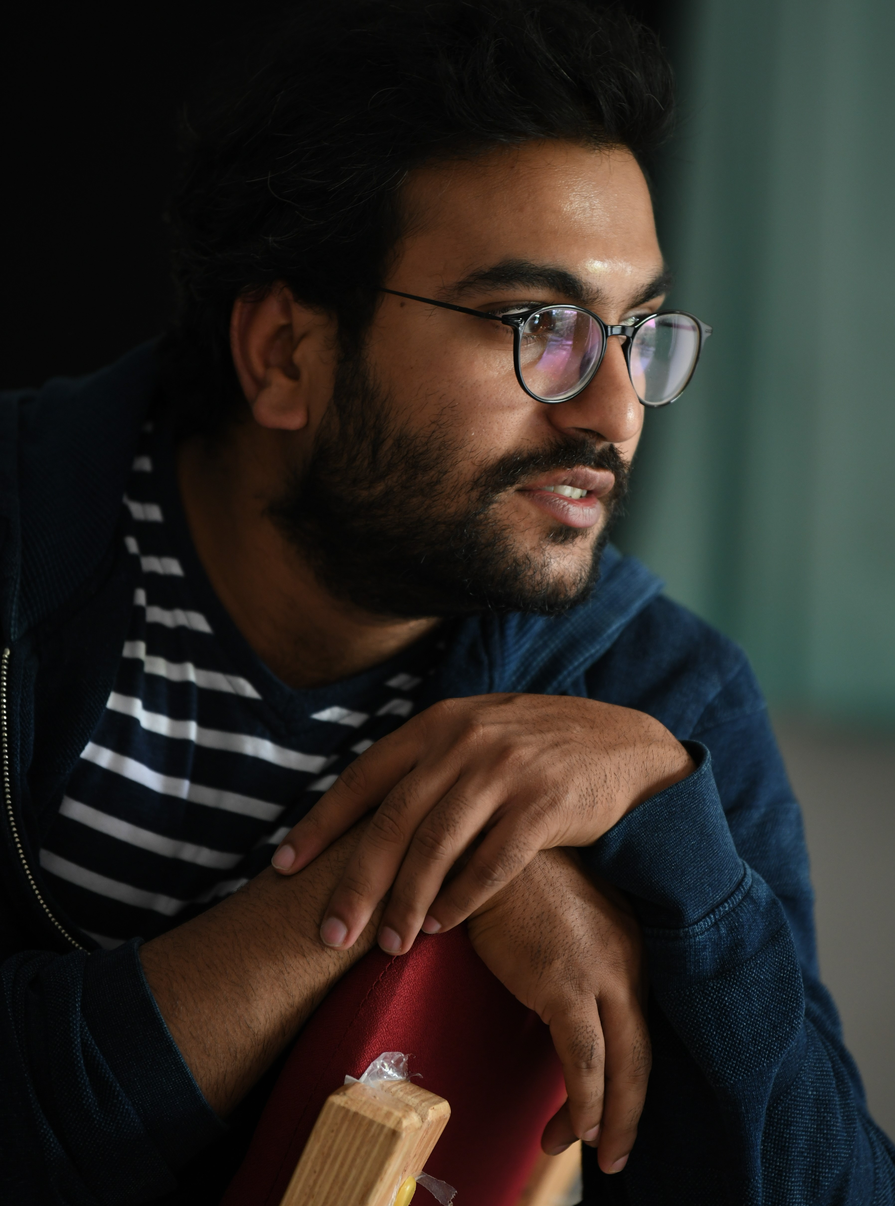 This is a photo of a movie director Raj Pathipati.